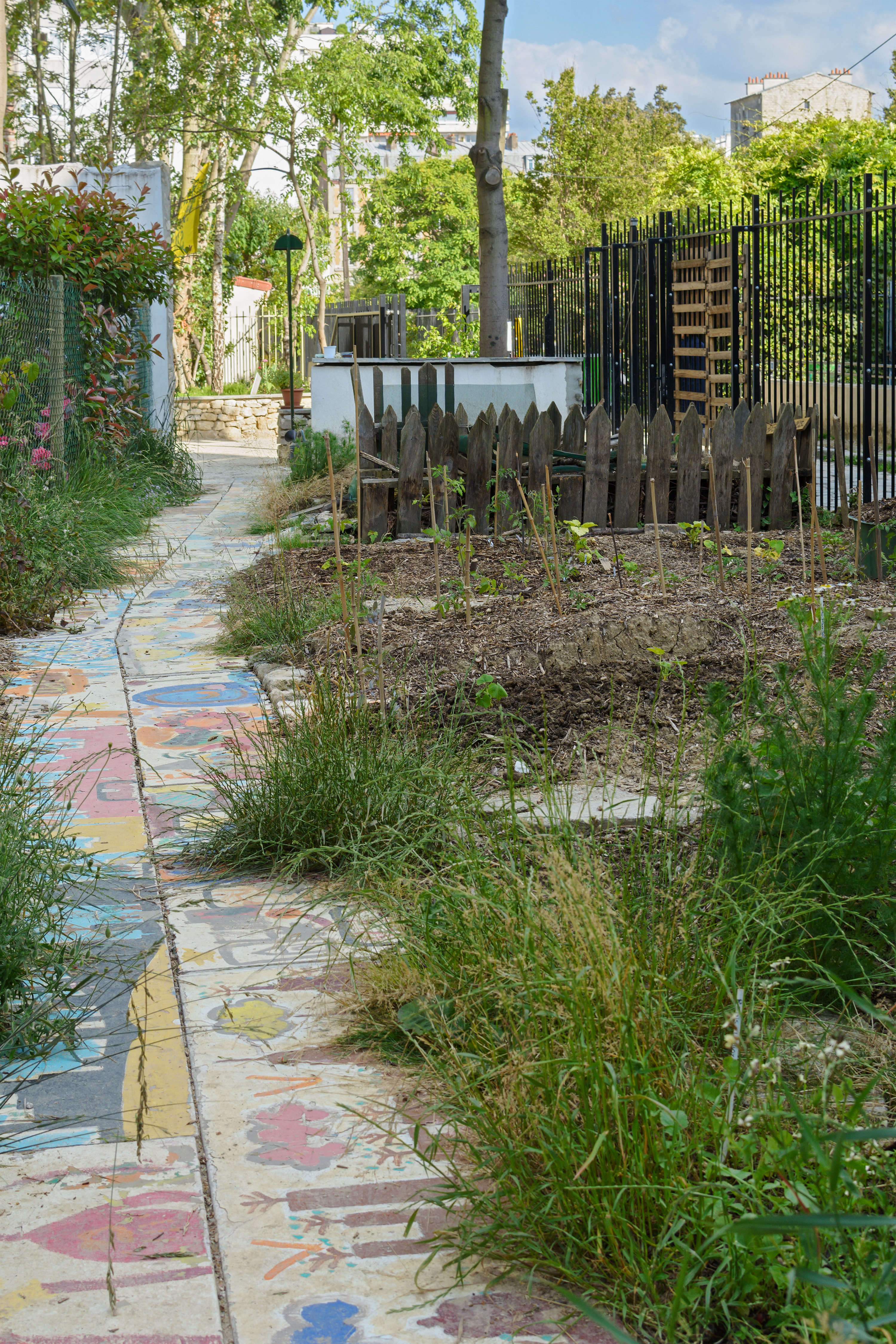 Into the community garden of the rue des Thermopyles (="Thermopylae Street") in the 14th arrondissement of Paris, France.